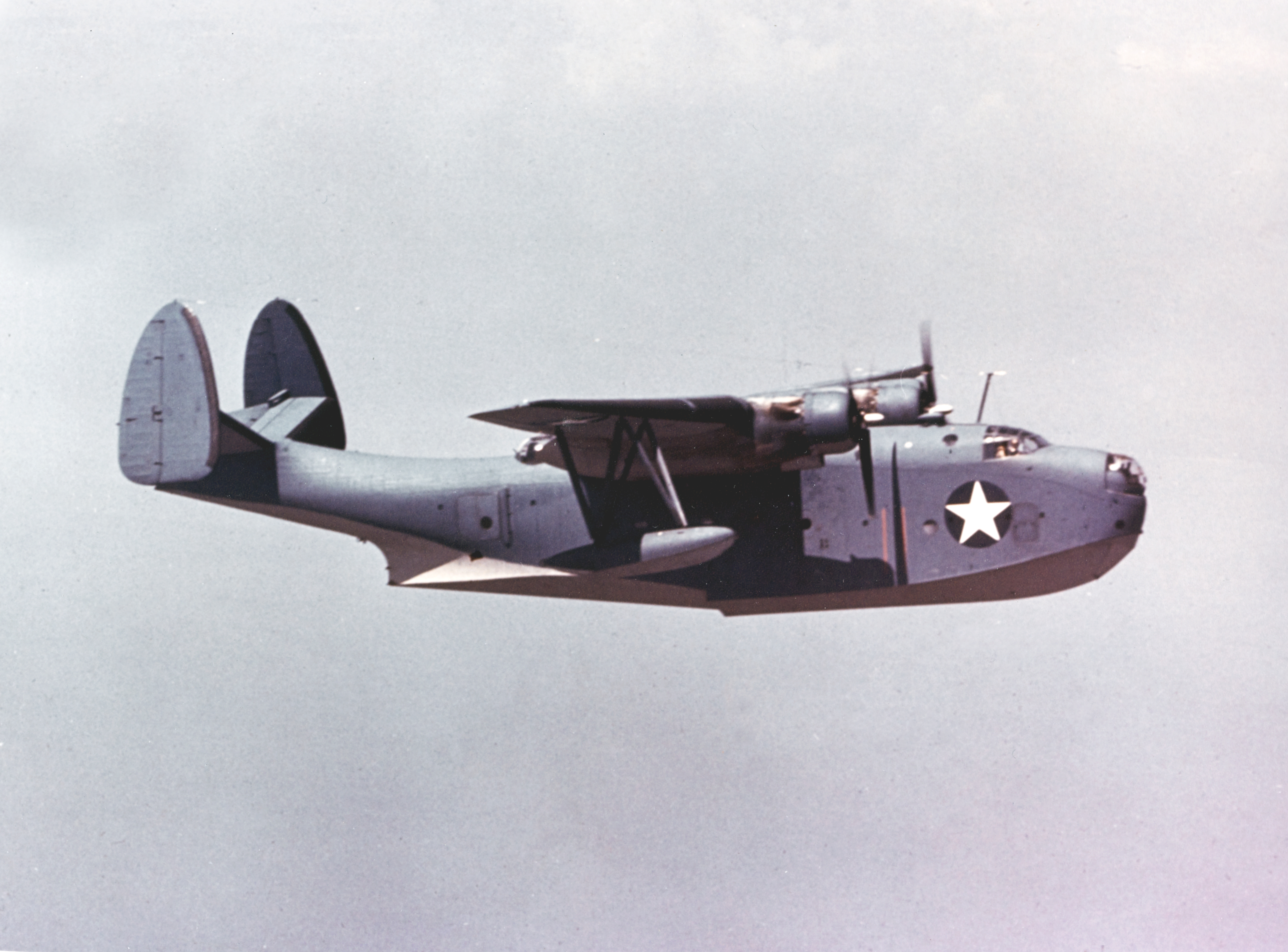 A U.S. Navy Martin PBM-3 Mariner in flight, 1942-43.